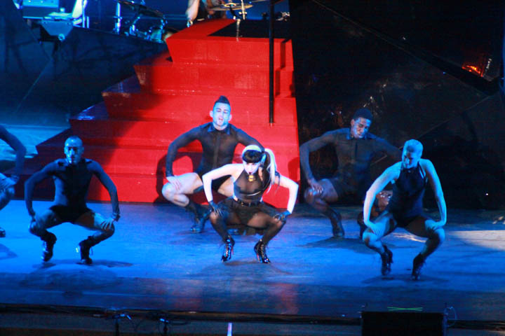 Lady Gaga performing "Telephone" on a 2011 promotional concert in Taichung, Taiwan.